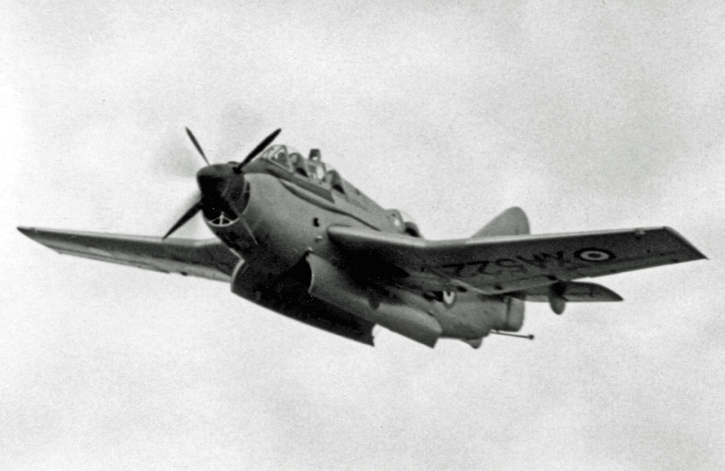 Fairey Gannet T.2 demonstrating at the 1955 SBAC show at Farnborough with weapons bay open and one-half of the Double Mamba shut down